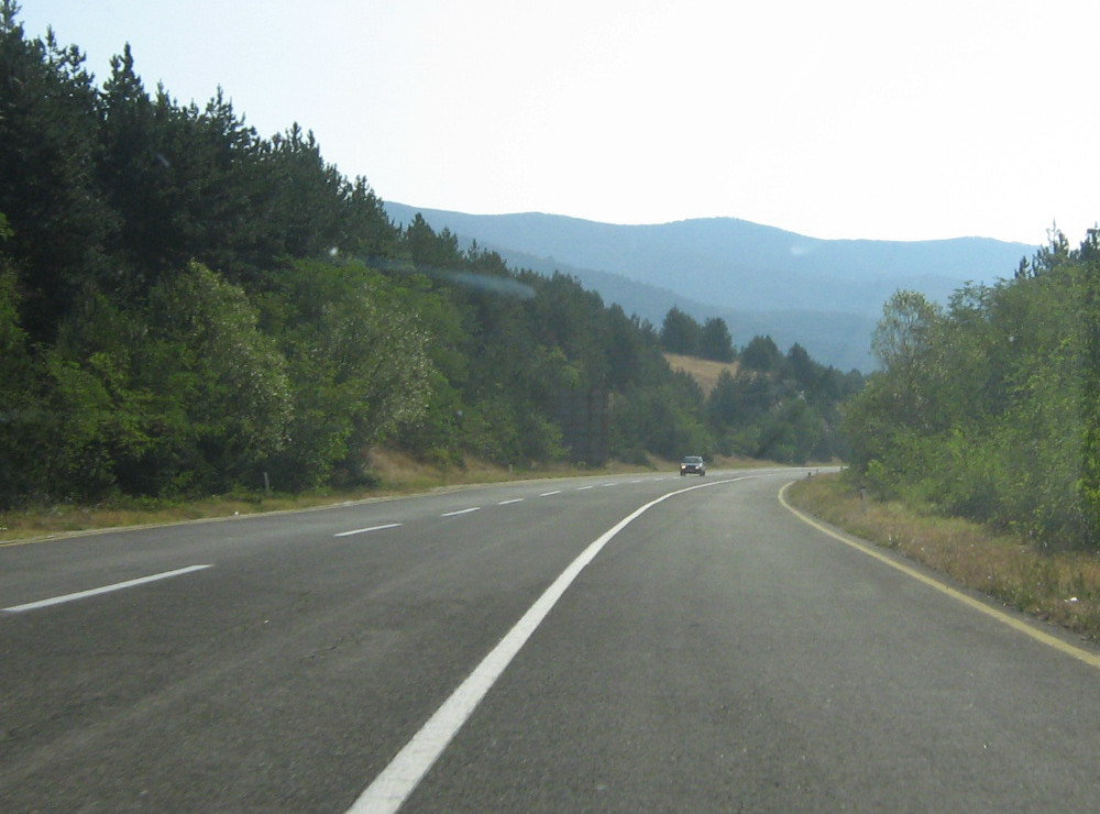 Macedonian national road M-5 between Bitola and Resen